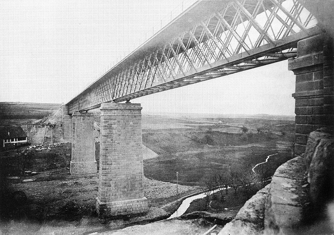 Ettenbach viaduct near Freudenstadt, an iron truss railway bridge (built in 1878).